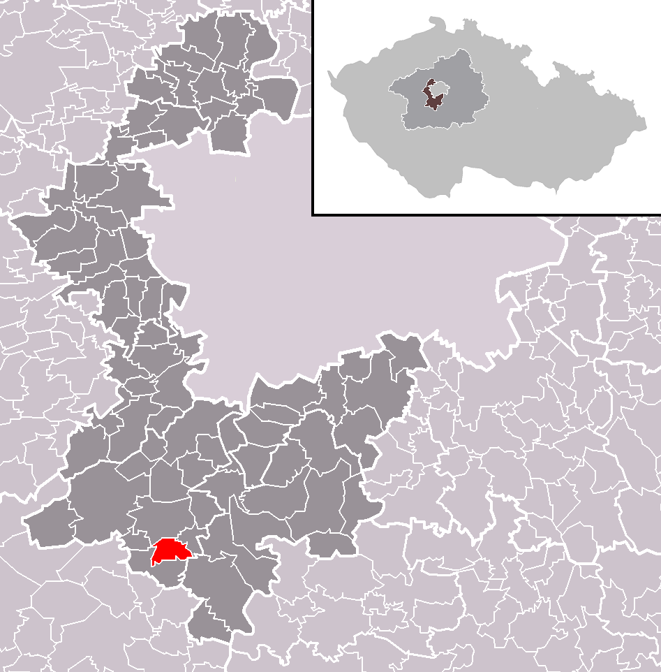 Location of Bratřínov municipality within Prague-West District and administrative area of Černošice as a Municipality with Extended Competence.